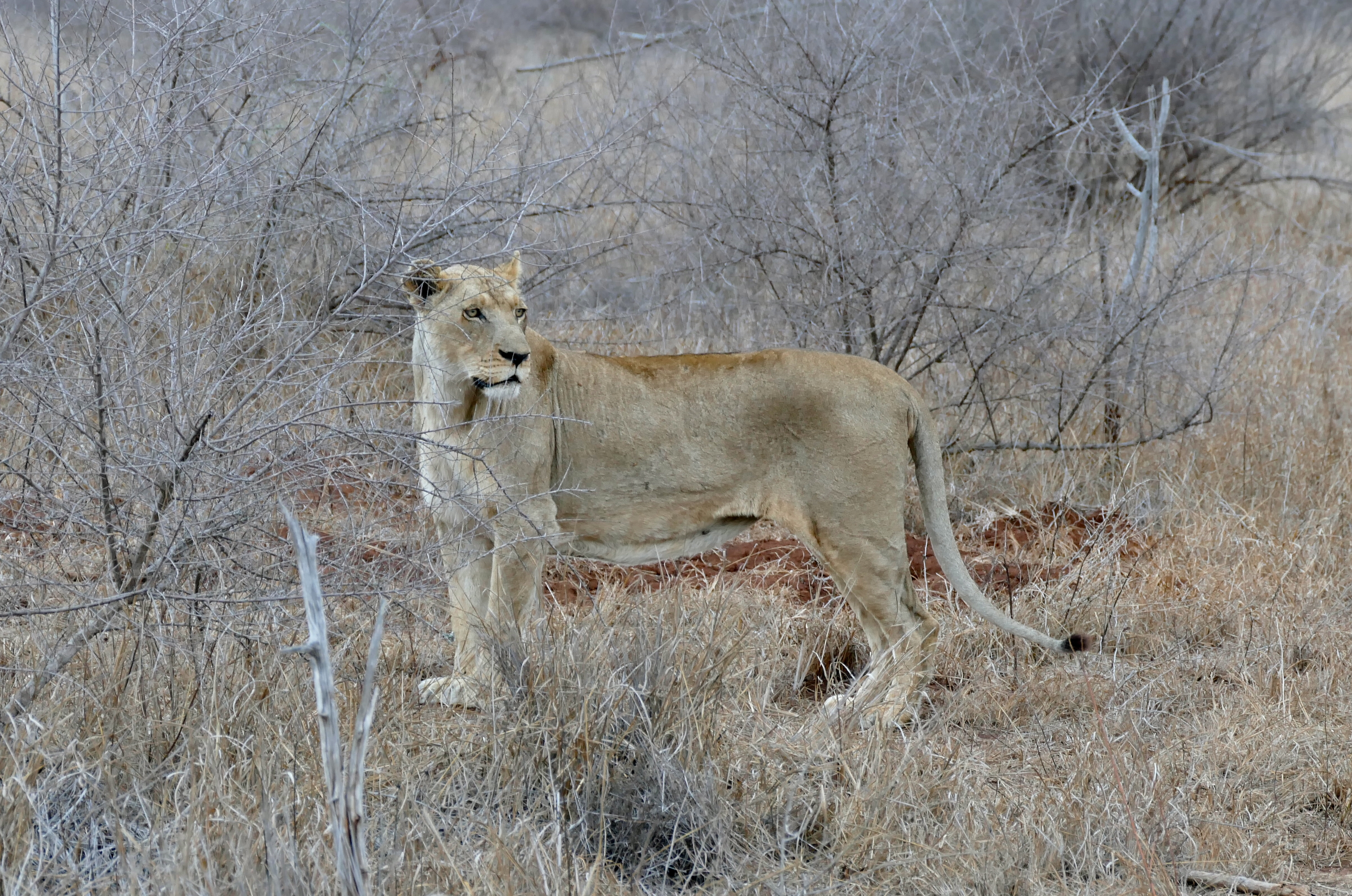 Hlane Royal National Park, SWAZILAND